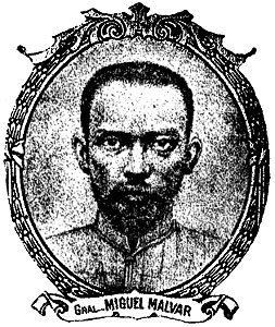 Image from the book "Mga Dakilang Pilipino" by Jose N. Sevilla